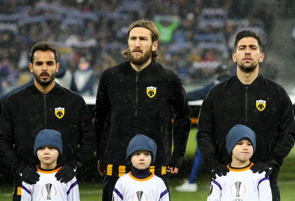 Dmytro Chygrynskyi, Anastasios Bakasetas, Rodrigo Galo Brito